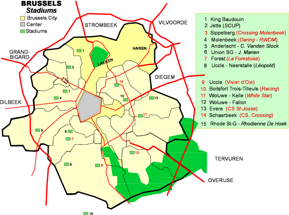 Schematical map of Brussels with situation of actual and former football (soccer) stadiums